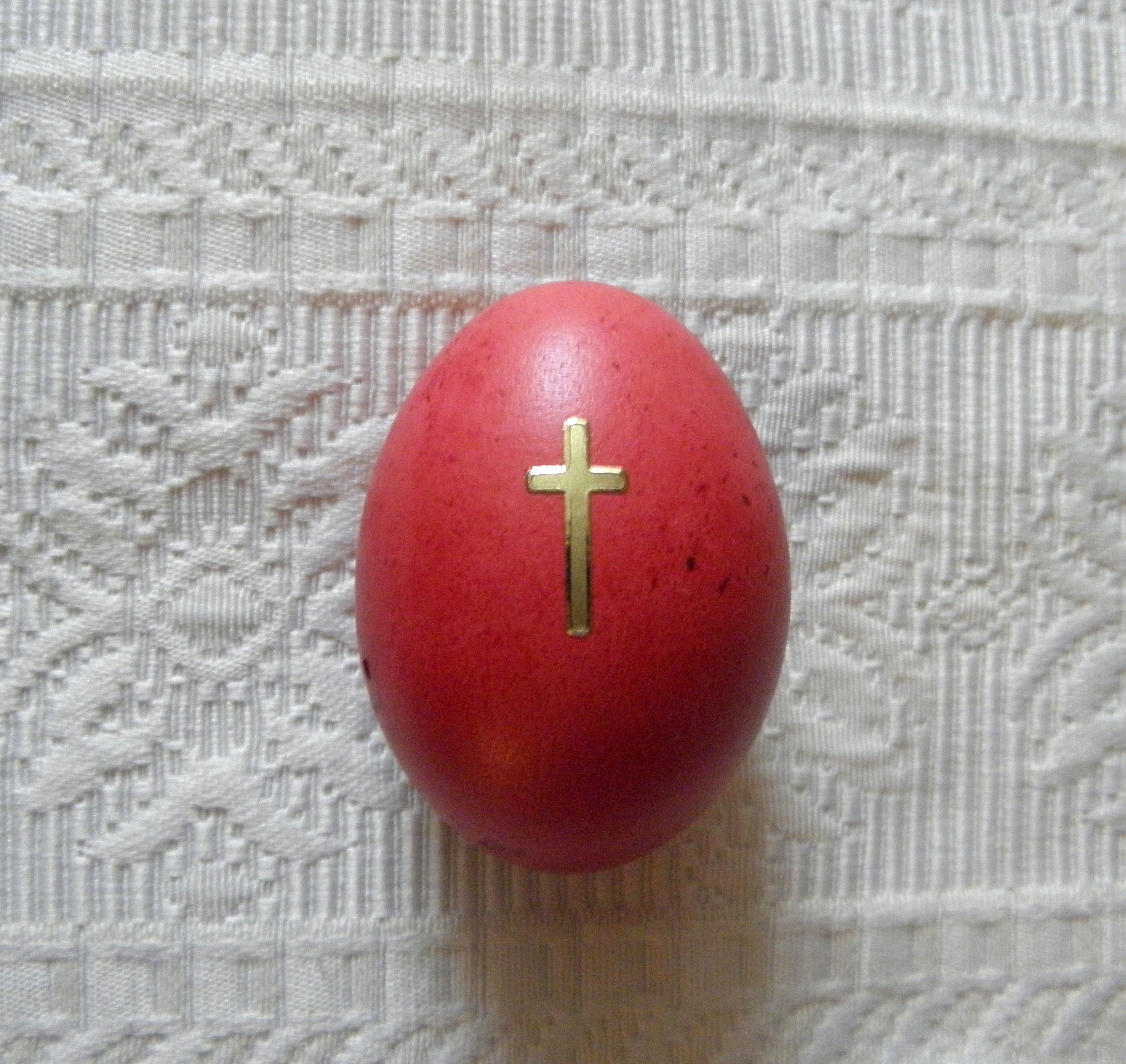 Red Paschal Egg with Cross, blessed and distributed on Pascha 2013, at St Kosmas Aitolos Greek Orthodox Monastery, Bolton, Ontario, Canada.